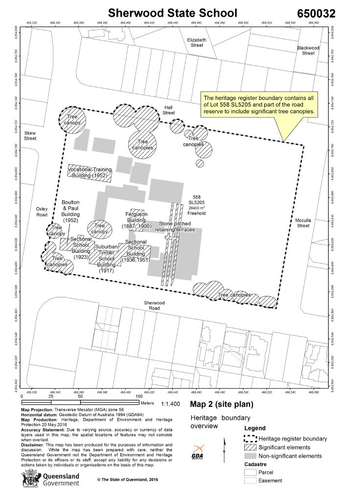 50032 Sherwood State School - Map 2 (2016)